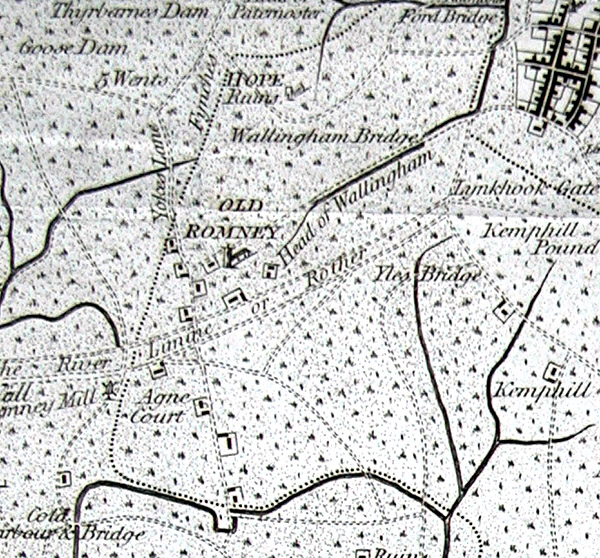 Fragment from Edward Hasted's History and Topographical Survey of Kent, Volume 8, published 1799